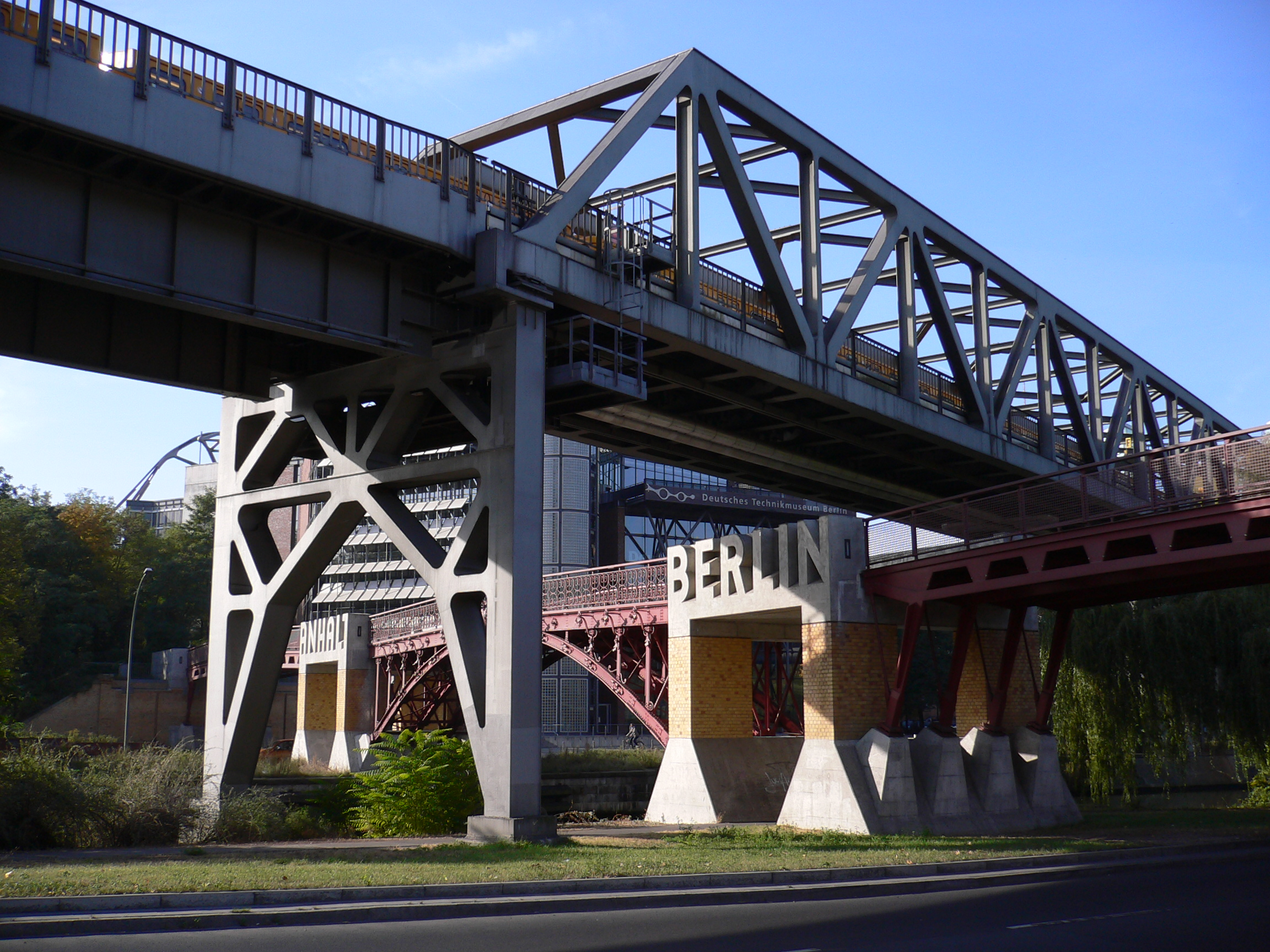 Anhalter Steg and metro bridge U1 over Landwehrkanal, in the background Deutsches Technikmuseum Berlin, Berlin-Kreuzberg, Germany